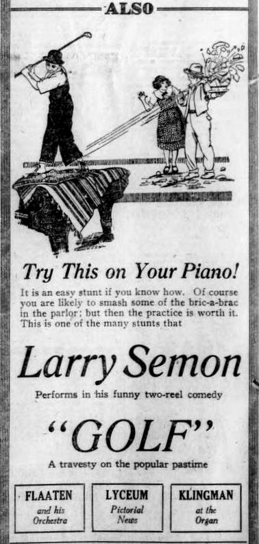 Newspaper advertisement for the American comedy film Golf (1922) with Larry Semon, on page 2 of the November 4, 1922 Duluth Herald.